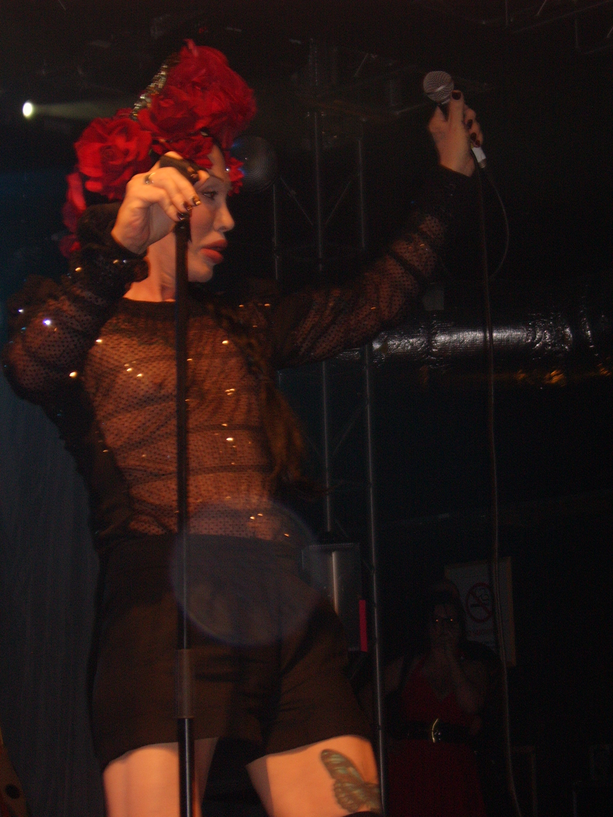 Pete Burns (ex Dead or Alive) Carling Academy, Liverpool 12/9/08.